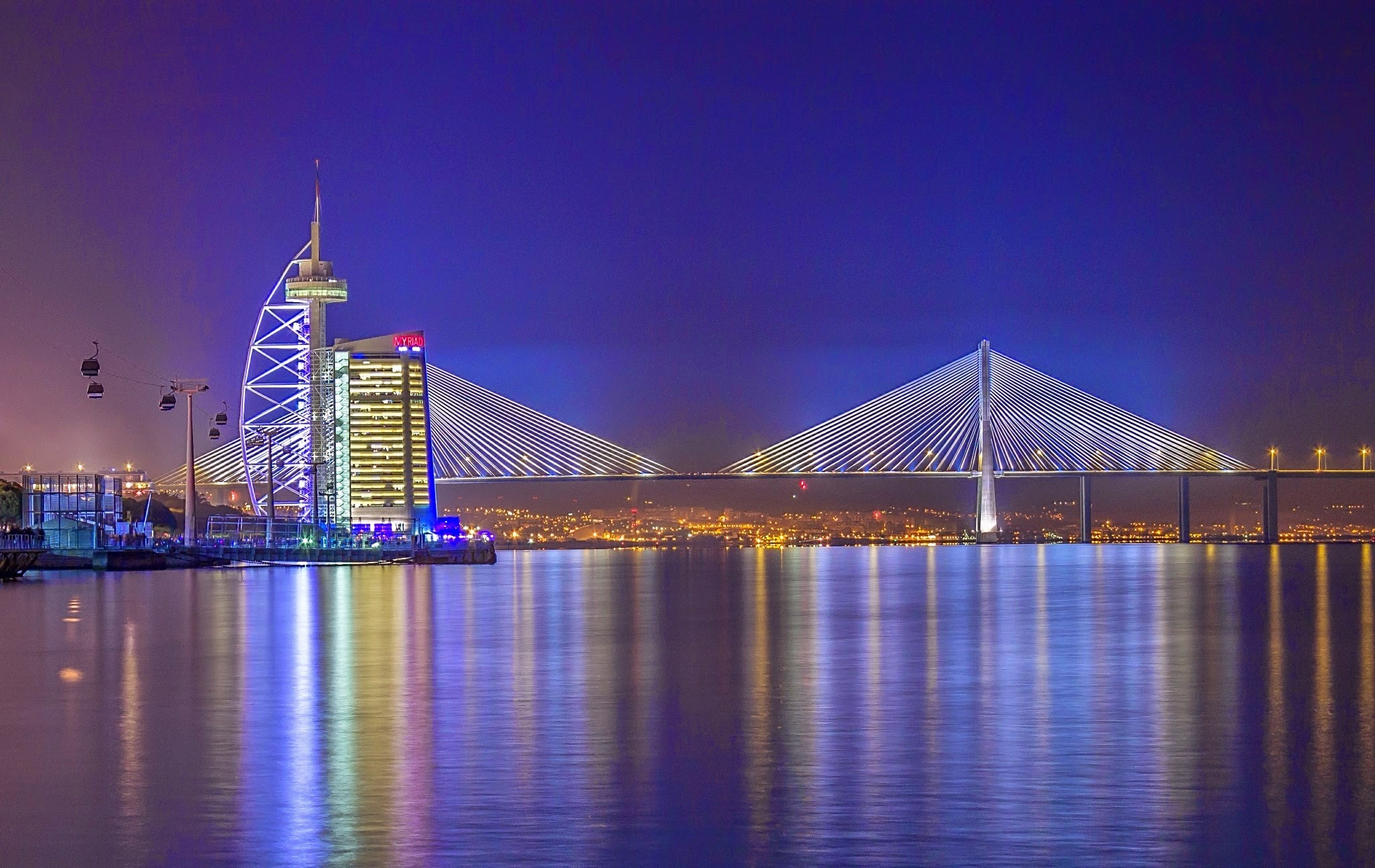 Nações Park